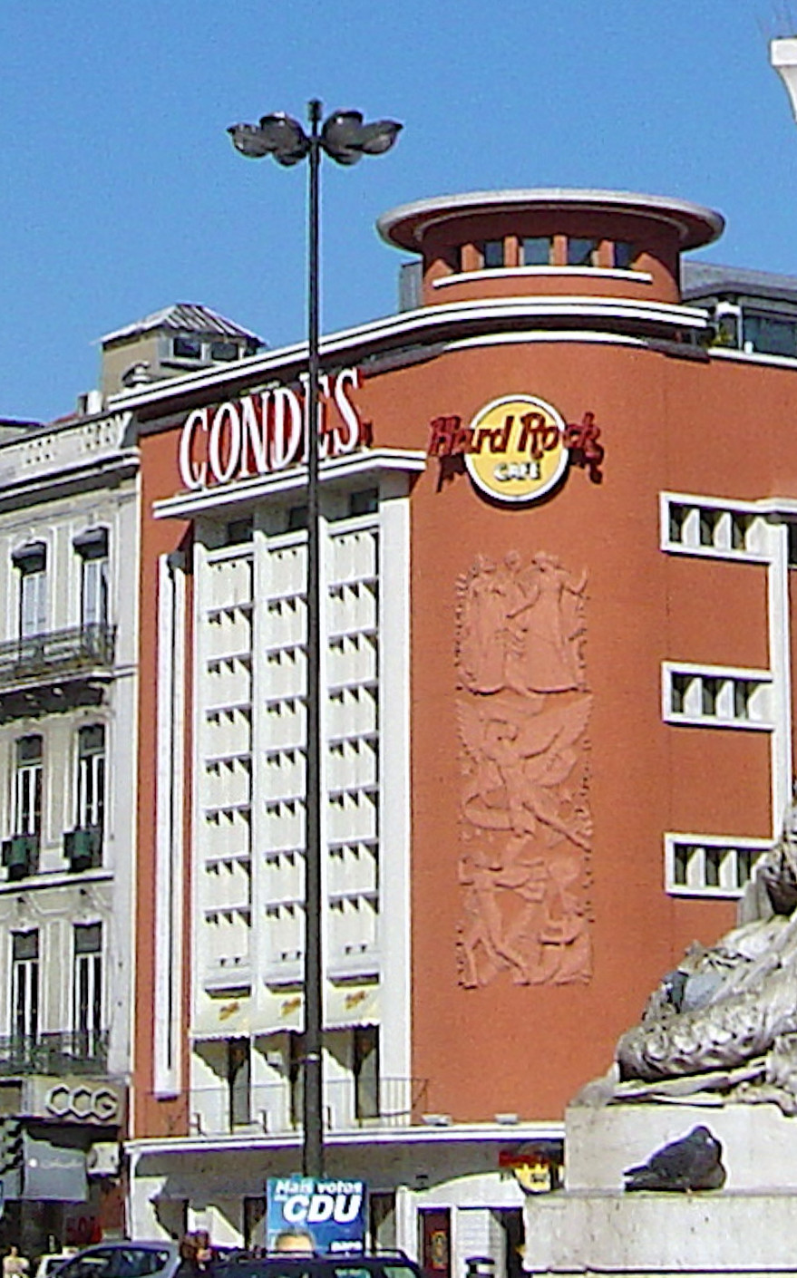 Created by: Portuguese_eyes * Upload by: User:Rei-artur * Foto: Flickr